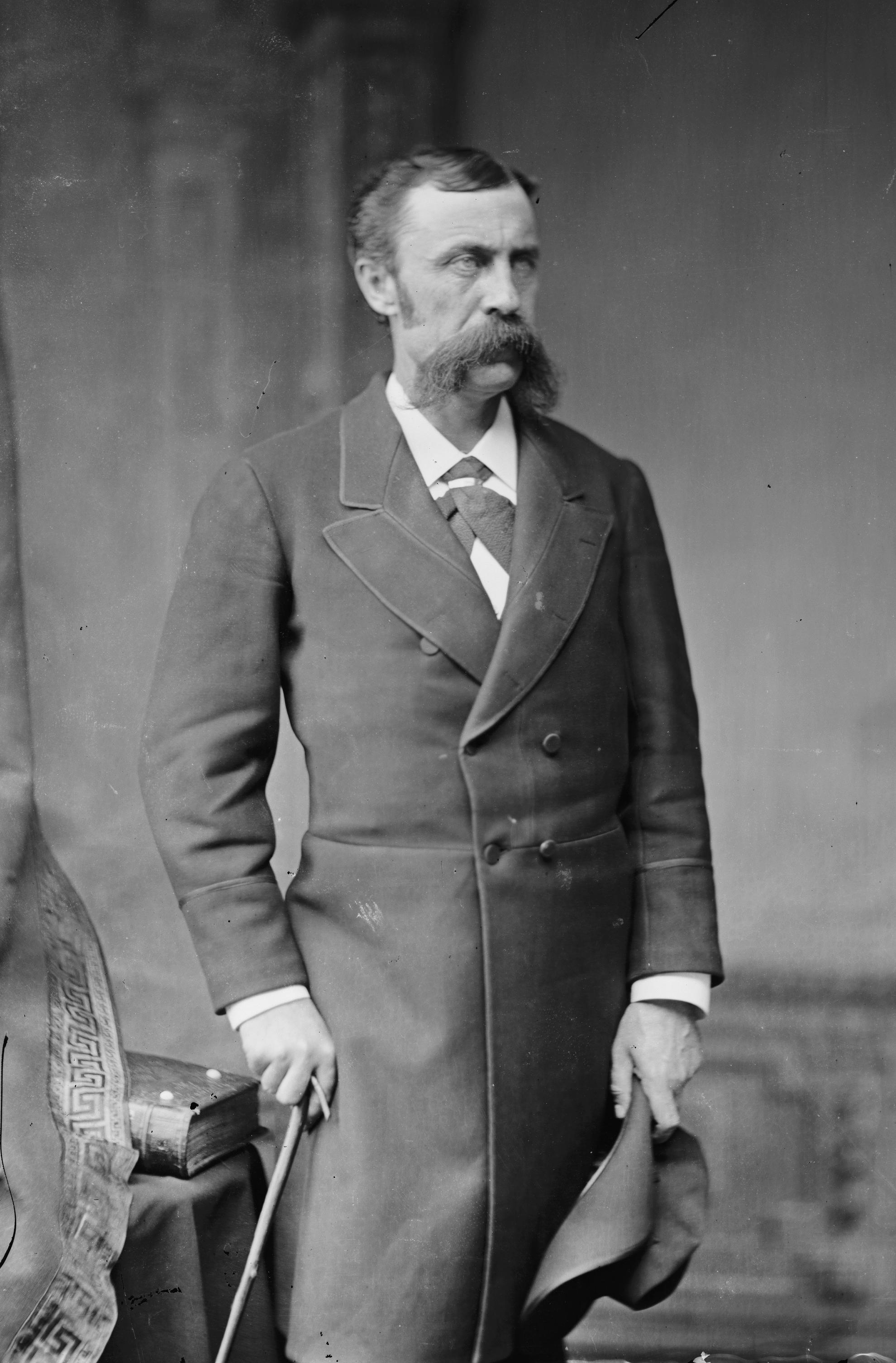 Joseph Clay Stiles Blackburn. Library of Congress description: "Blackburn, Hon. Joseph C.S. of Ky."